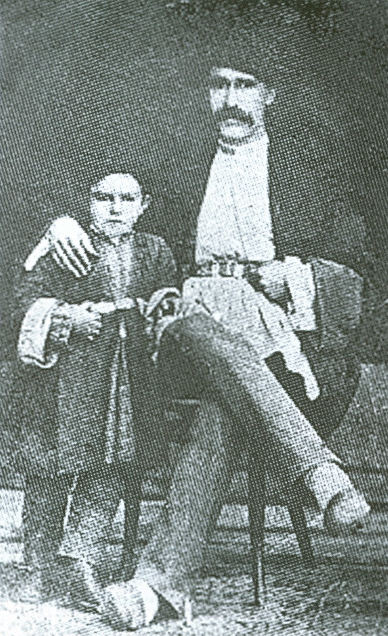 Uzeir Hajibeyov with father Abdul Huseyn Hajibeyov, Shusha, 1890